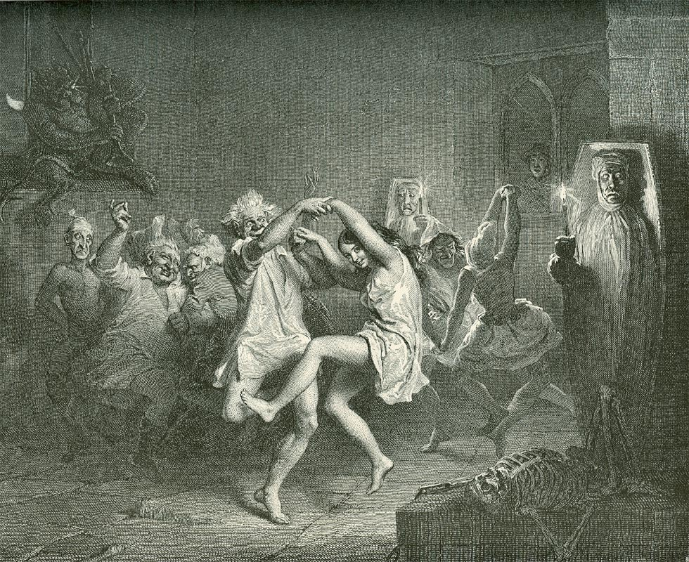 "Tam O'Shanter and the Witches" Illustration to the poem of Robert Burns